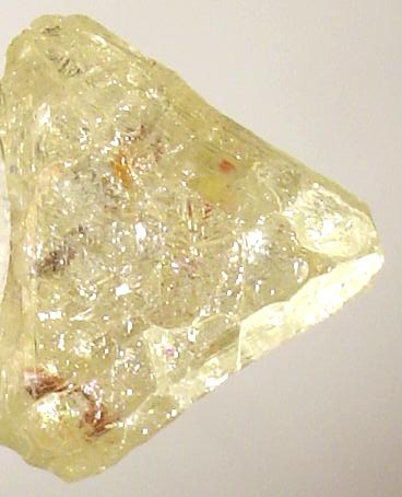 Diamond Locality: Ghana (Locality at ) A large, sharp, equant, translucent, yellow, spinel-twinned or macle twinned diamond from Ghana. A couple of inclusions add character to this thick, lustrous crystal. Super macle twinned diamond, for the collector! 0.9 x 0.8 x 0.4 cm